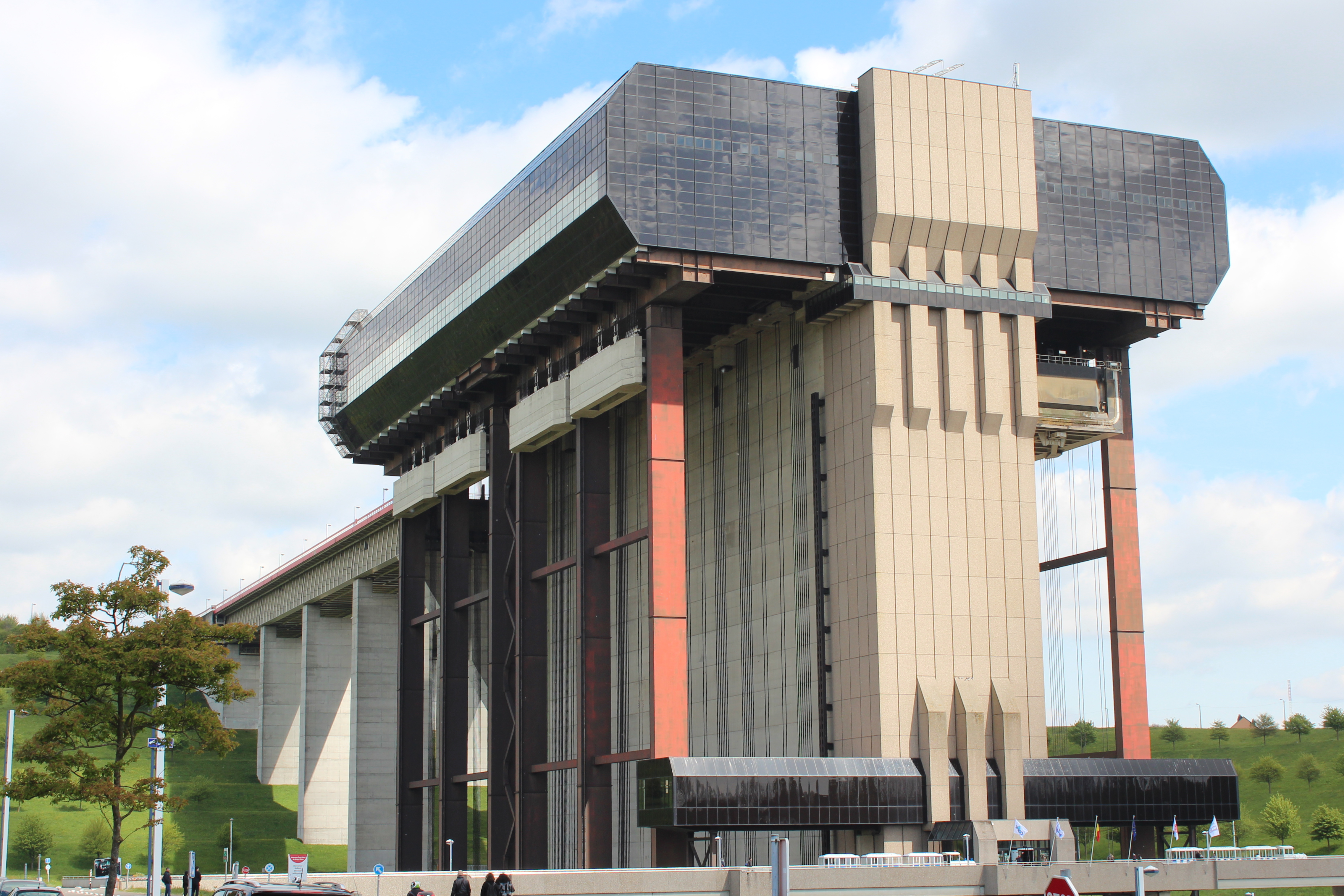 Strépy-Thieu boat lift